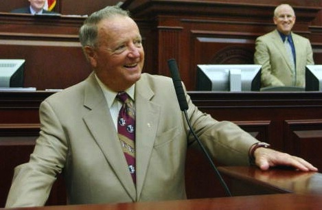 Bobby Bowden in 2007, in the Florida House of Representatives